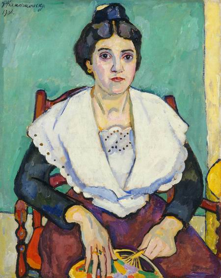 Girl from Arles, unknown location.